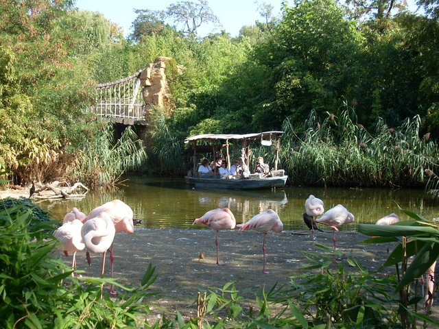 Erlebnis-Zoo Hannover. Bootsfahrt Serengeti, Hannover.